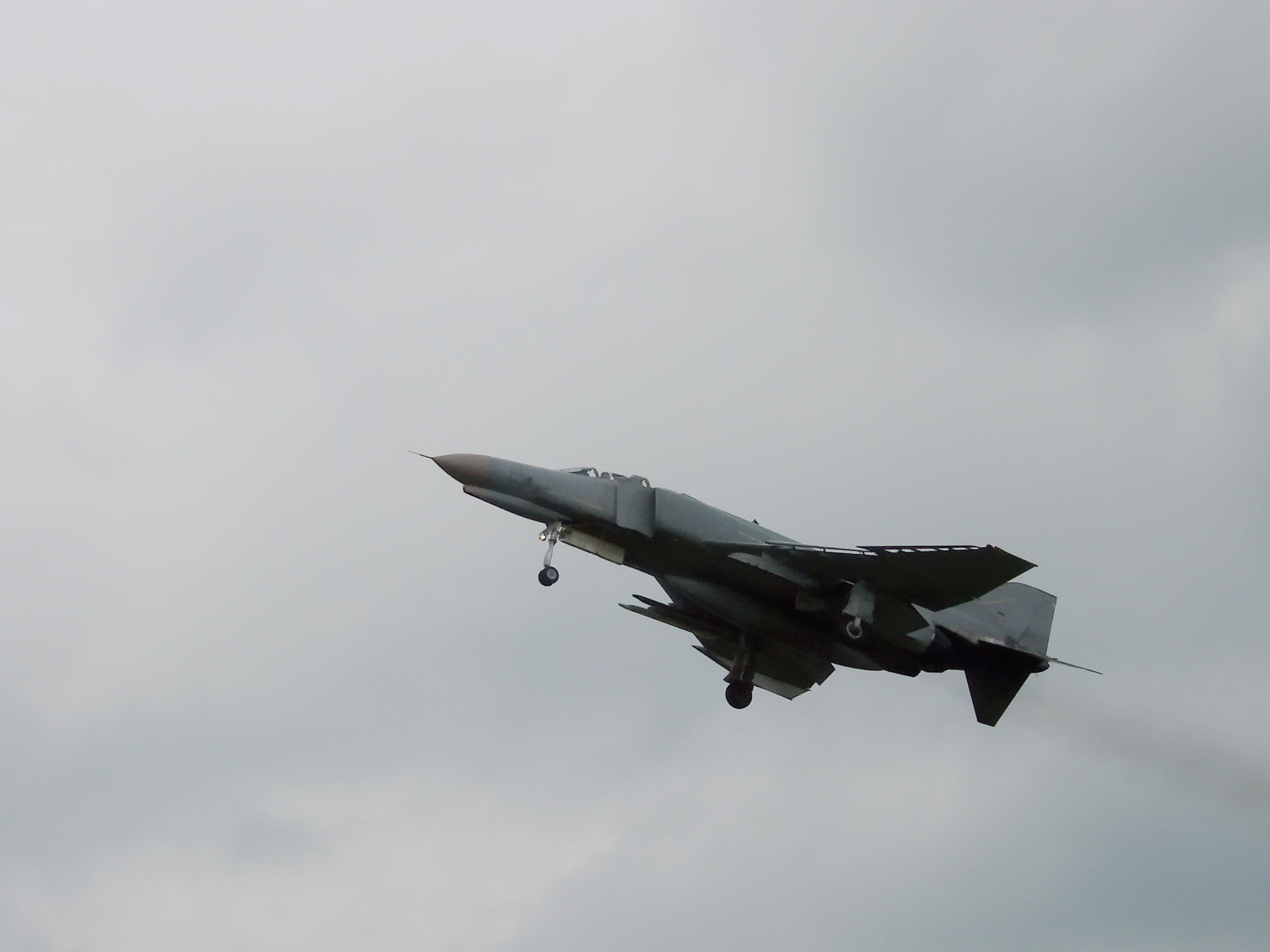 A Phantom F-4F of the Jagdgeschwaders 71 at June 26th 2007 shortly before the landing at airbase Wittmundhafen